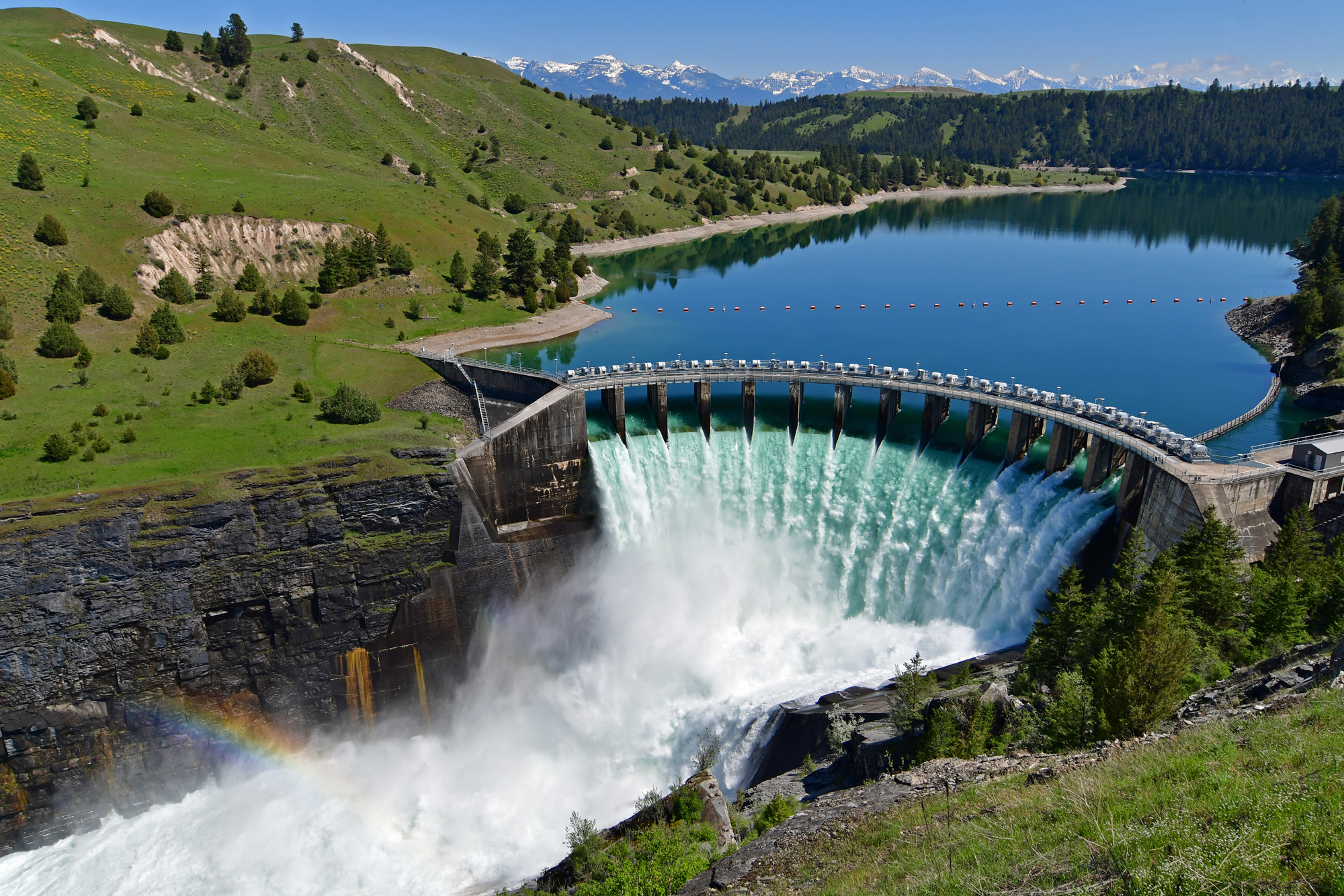 Hydroelectric Séliš Ksanka Ql’ispé Dam (formerly known as Kerr Dam) at Polson, operated by the Confederated Salish and Kootenai Tribes of the Flathead Nation in Montana. Due to the spring snow melting in the mountains, all gates of the dam are open.